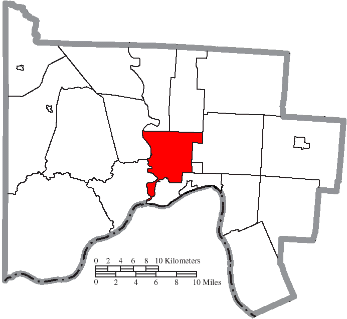 Map of the municipal and township boundaries of Scioto County, Ohio, United States, as of the 2000 census, with the location of Clay Township highlighted. Township borders are shown only in unincorporated areas in order to differentiate incorporated and unincorporated areas more clearly.